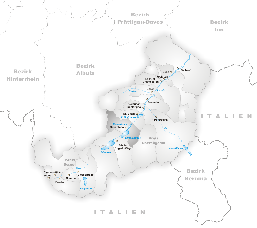 Municipality Silvaplana